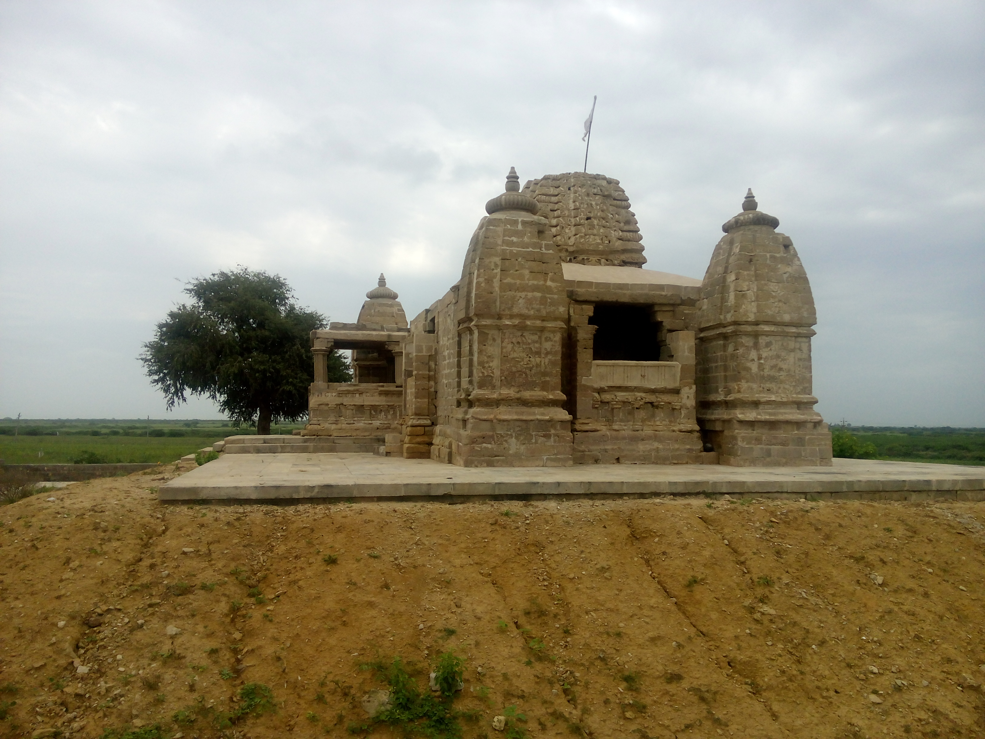 Dharashnvel Temple (Magderu)